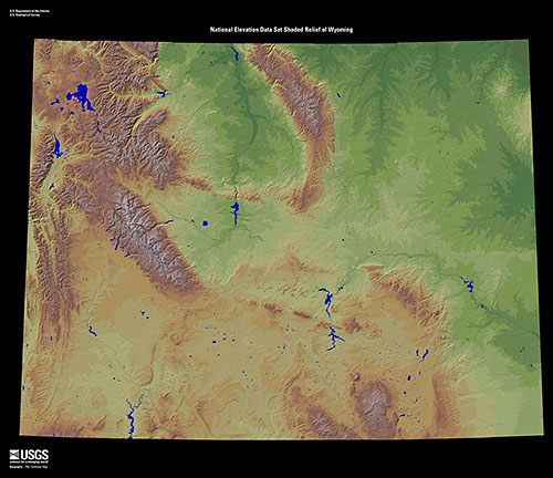 Shaded relief map of the U.S. state of Wyoming. From the United States Geological Survey.